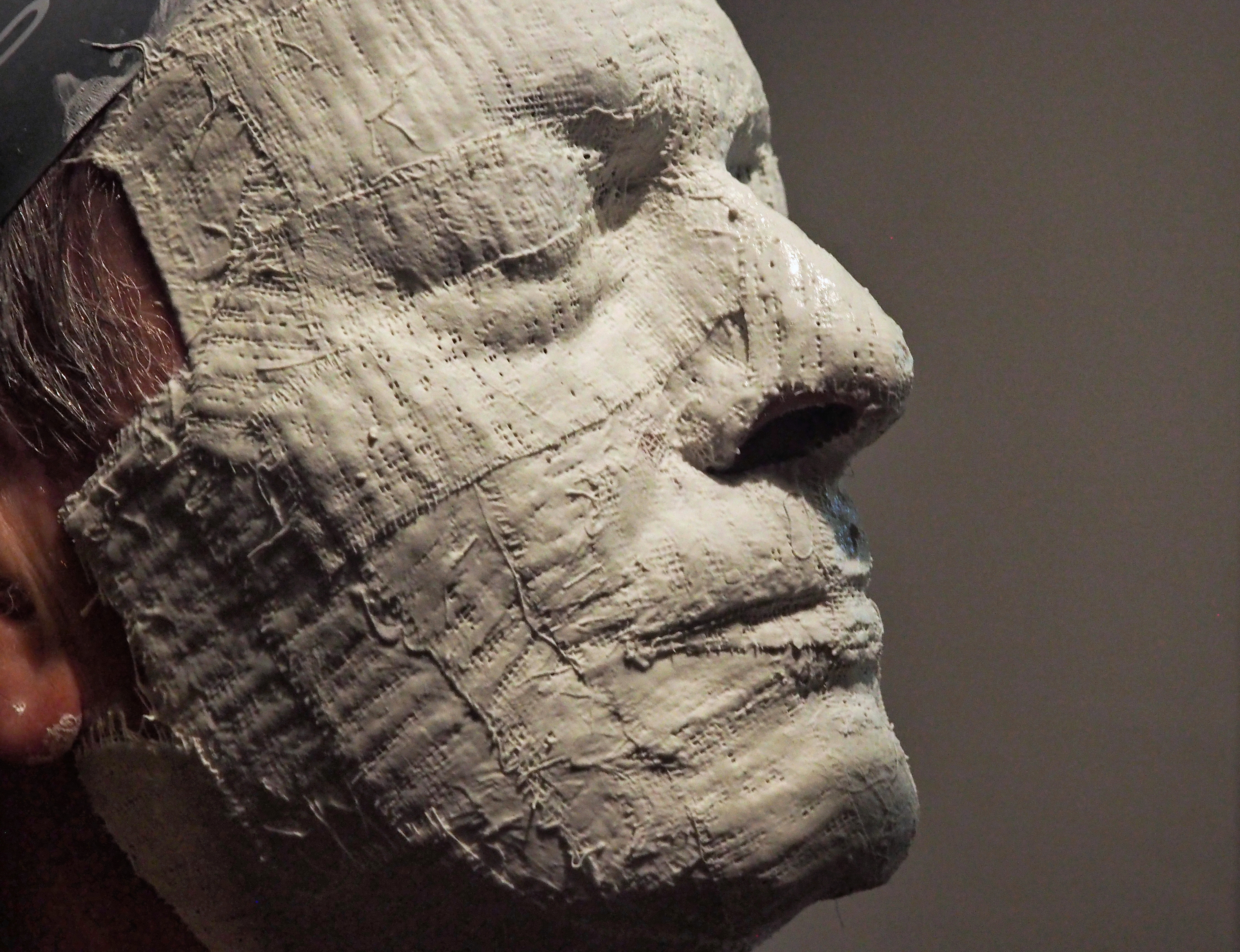 Execution of a face plaster casting on model, with plastered bandage, by Eduardo Luongo